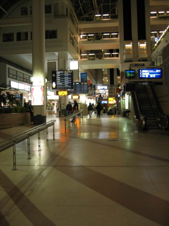 Cityterminalen (the bus terminal next to the central station), Stockholm